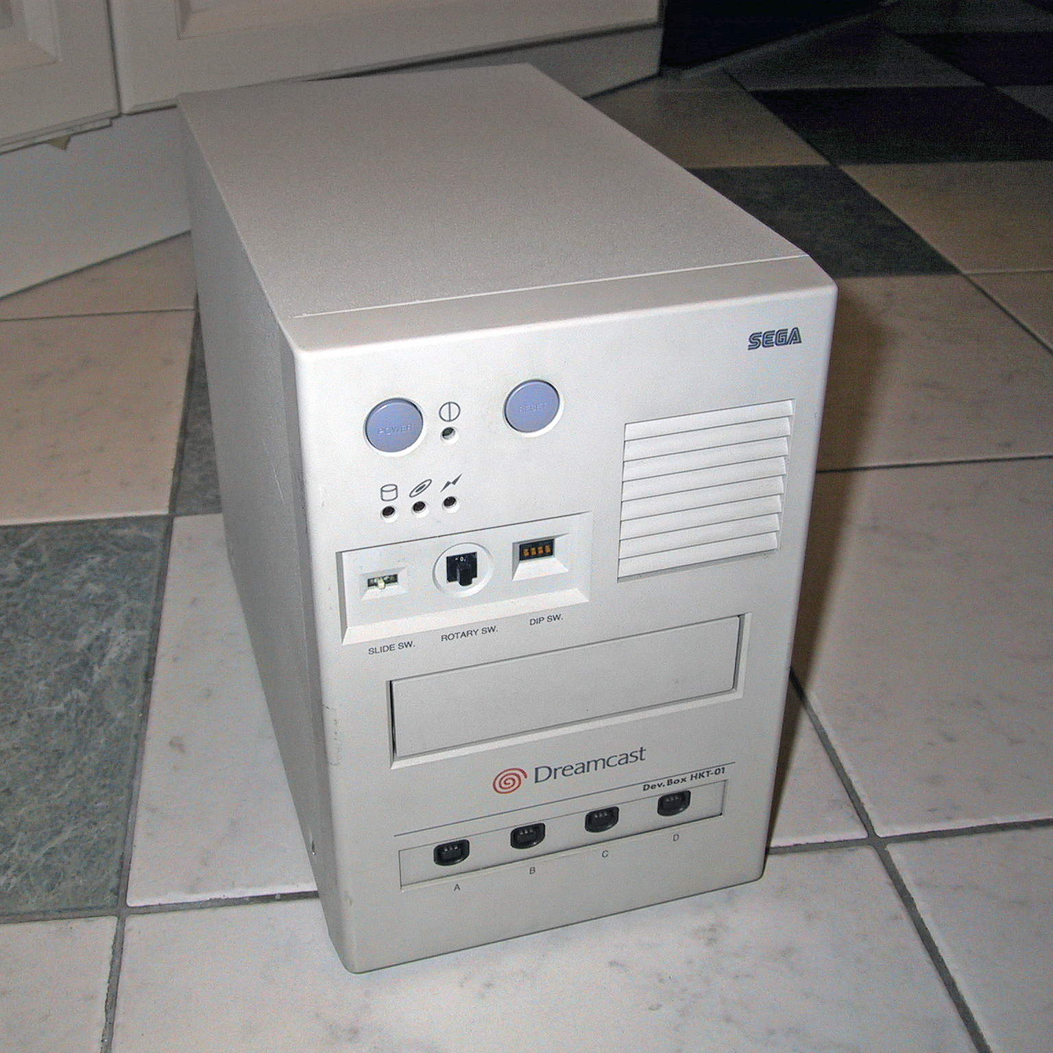 Dreamcast development unit (Set5)